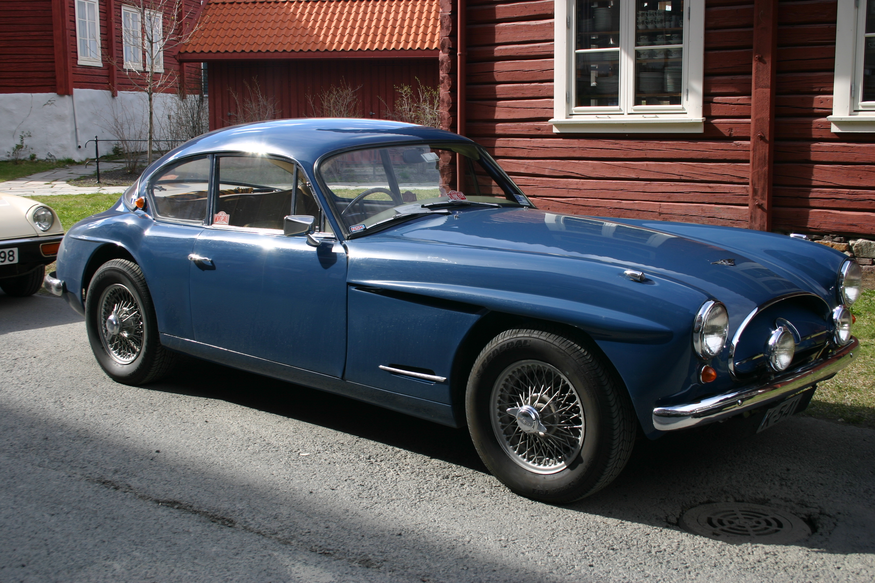 1956 Jensen 541 DeLuxe